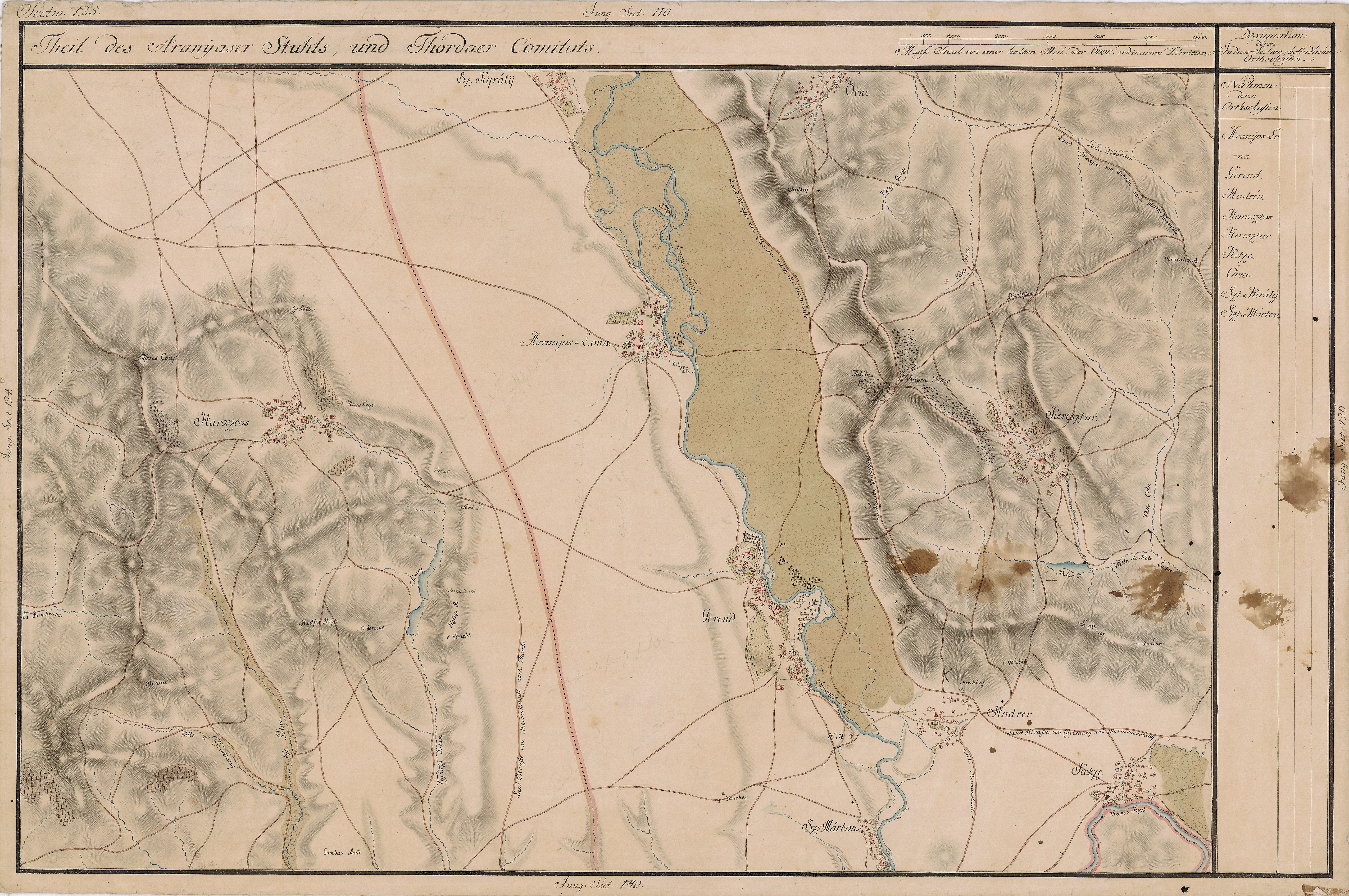 Grand Duchy of Transylvania, 1769-1773. Josephinische Landaufnahme pg.125